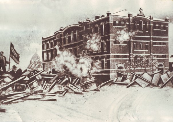 Building barricades in Sormovo, during the December uprising of 1905